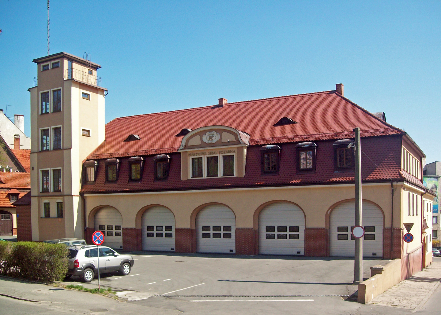 Fire Station in Kłodzko